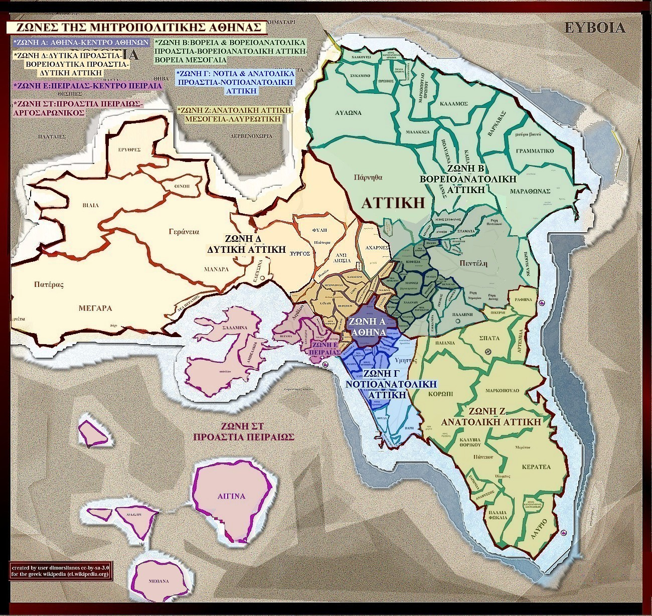 Map of Attica departments, Greece